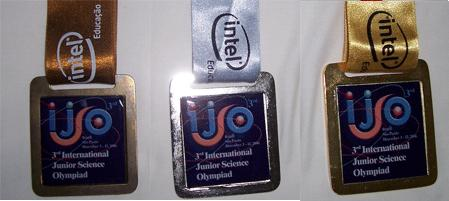 Medalhas da IJSO 2006.